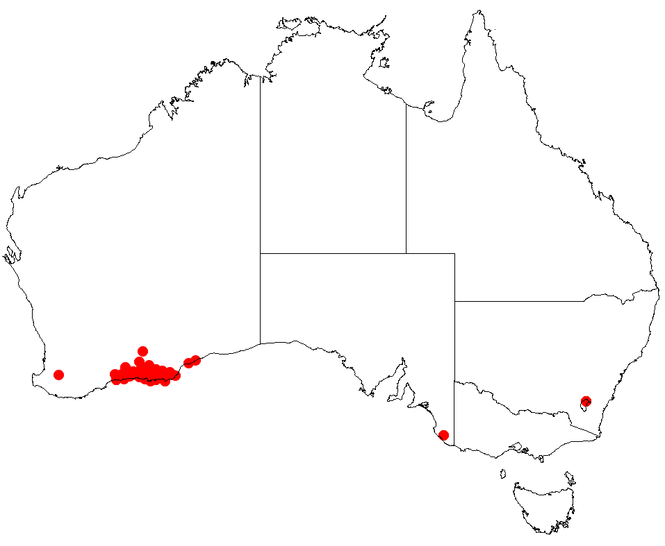 Hakea cinerea Occurrence data downloaded from Australasian Virtual Herbarium on 22 November 2018 using